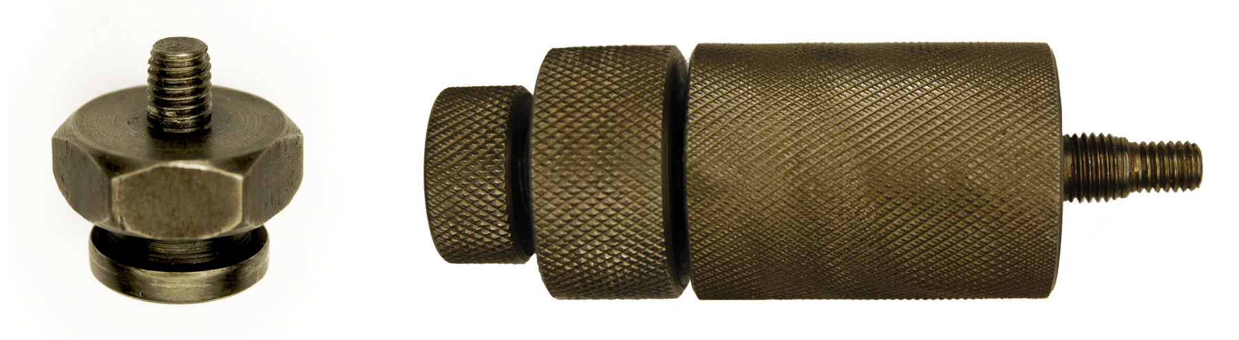 Stuck Case Remowing Tool